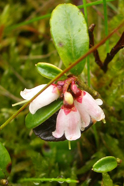 Cowberry flowers There were huge patches of blaeberry amongst the heather, with just a few cowberries flowering amongst them.